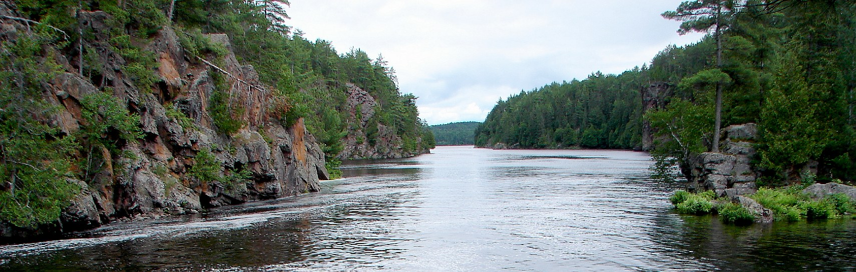 Mattawa River just downstream of the Talon Chute, Ontario, Canada